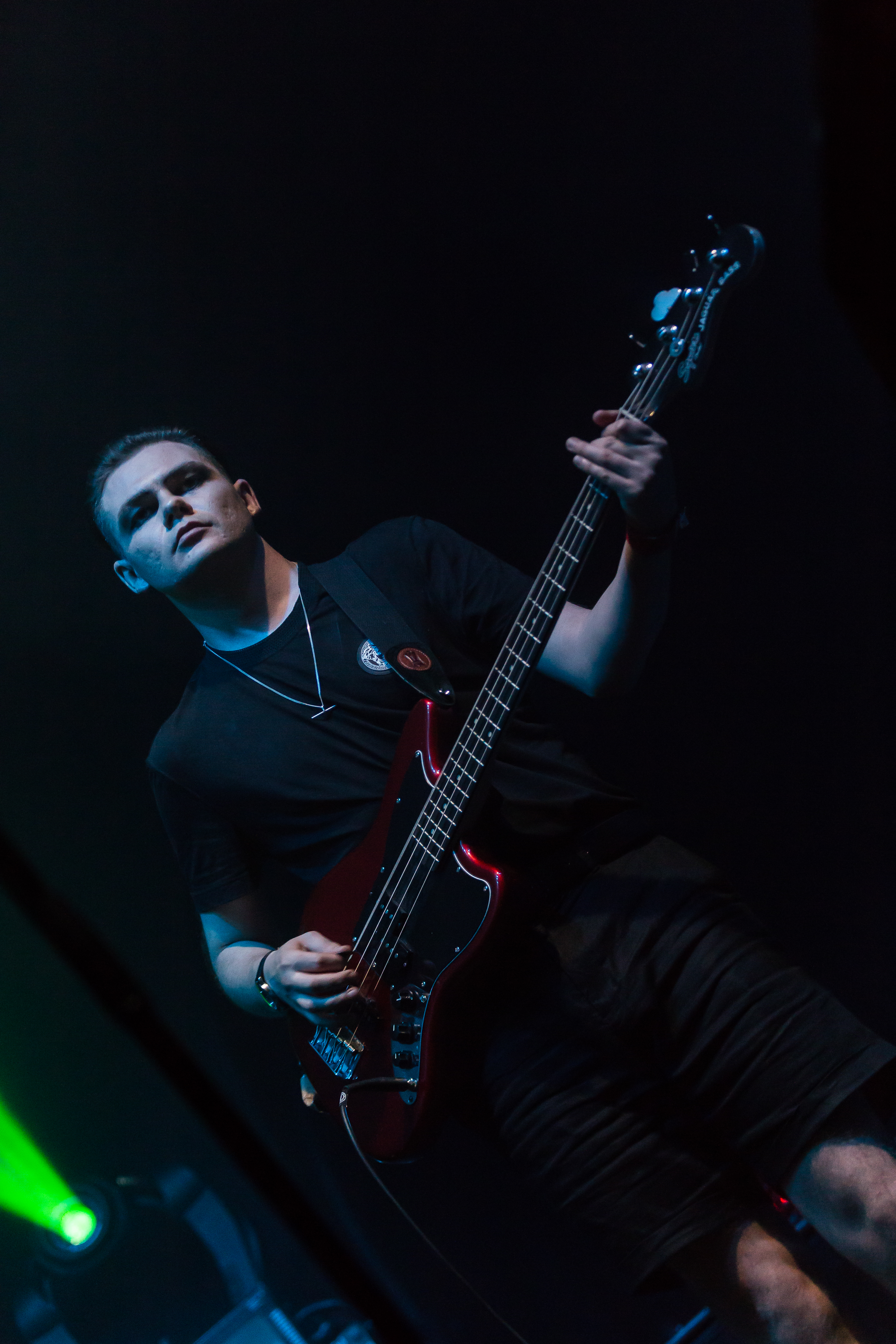 The Swiss-british dark wave band Lebanon Hanover at the Wave-Gotik-Treffen 2017 in Leipzig/Germany (Venue Stadtbad).